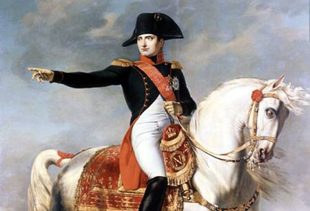 Napoleon Bonaparte